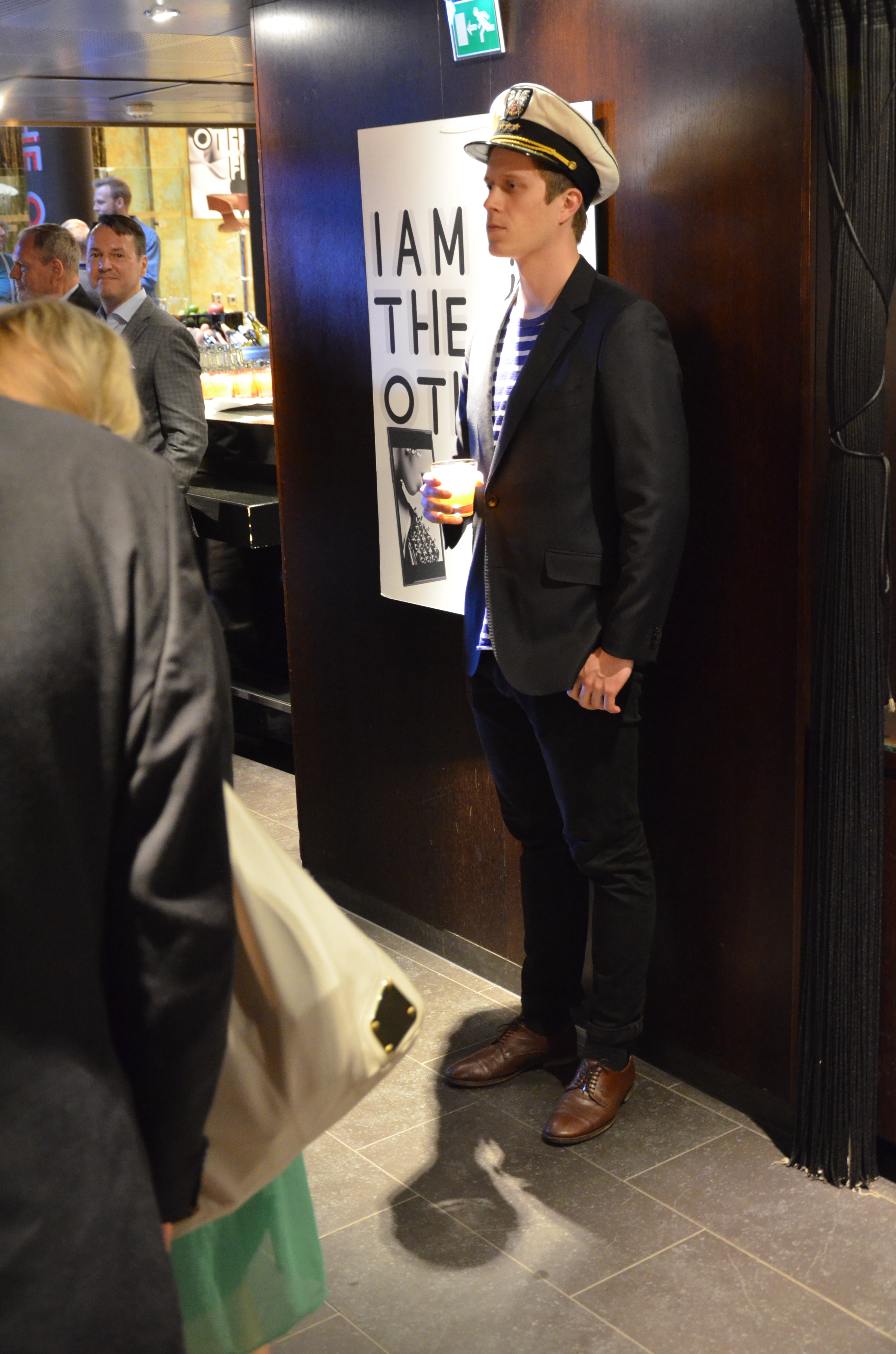 Sailor from Vapamedia.fi standing next to "the other half" poster. Event was Jolla love day at KlausK, Helsinki. ( Mobile Monday: 20.5.2013)